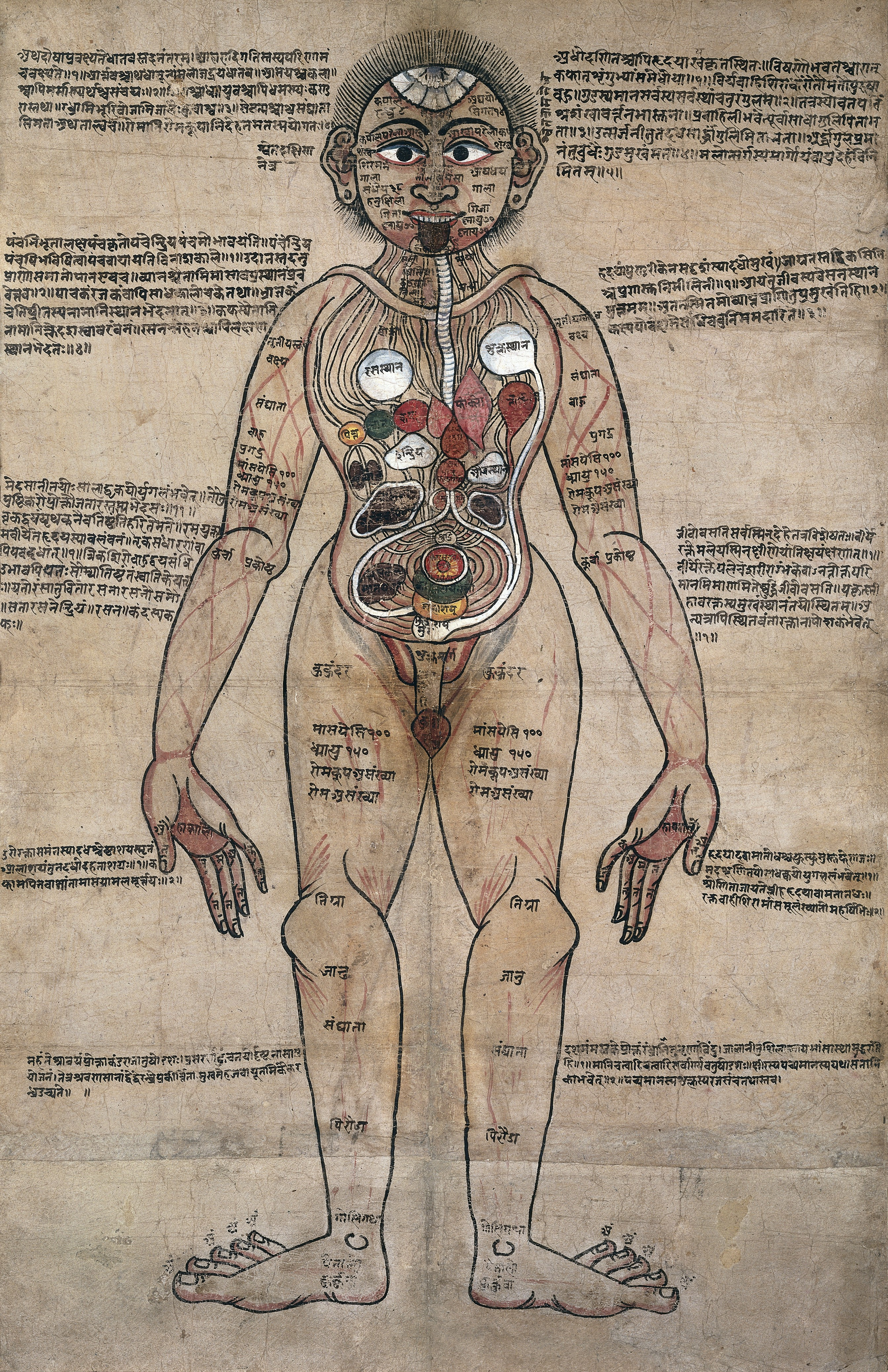 Anatomical study of a man standing with Nepalese and Sanskrit texts showing the Ayurvedic understanding of the human anatomy. Iconographic Collections Keywords: Ayurvedic medicine; Anatomy; Nepal